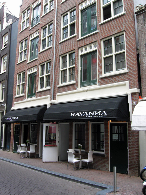 The once famous cafe/bar/dancing Havana (1989-2002) in Reguliersdwarsstraat in Amsterdam as seen in 2008